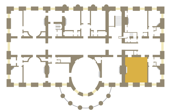 Floor plan of White House second floor showing the location of the Lincoln Bed Room. 18.02.07, Jim Hood.